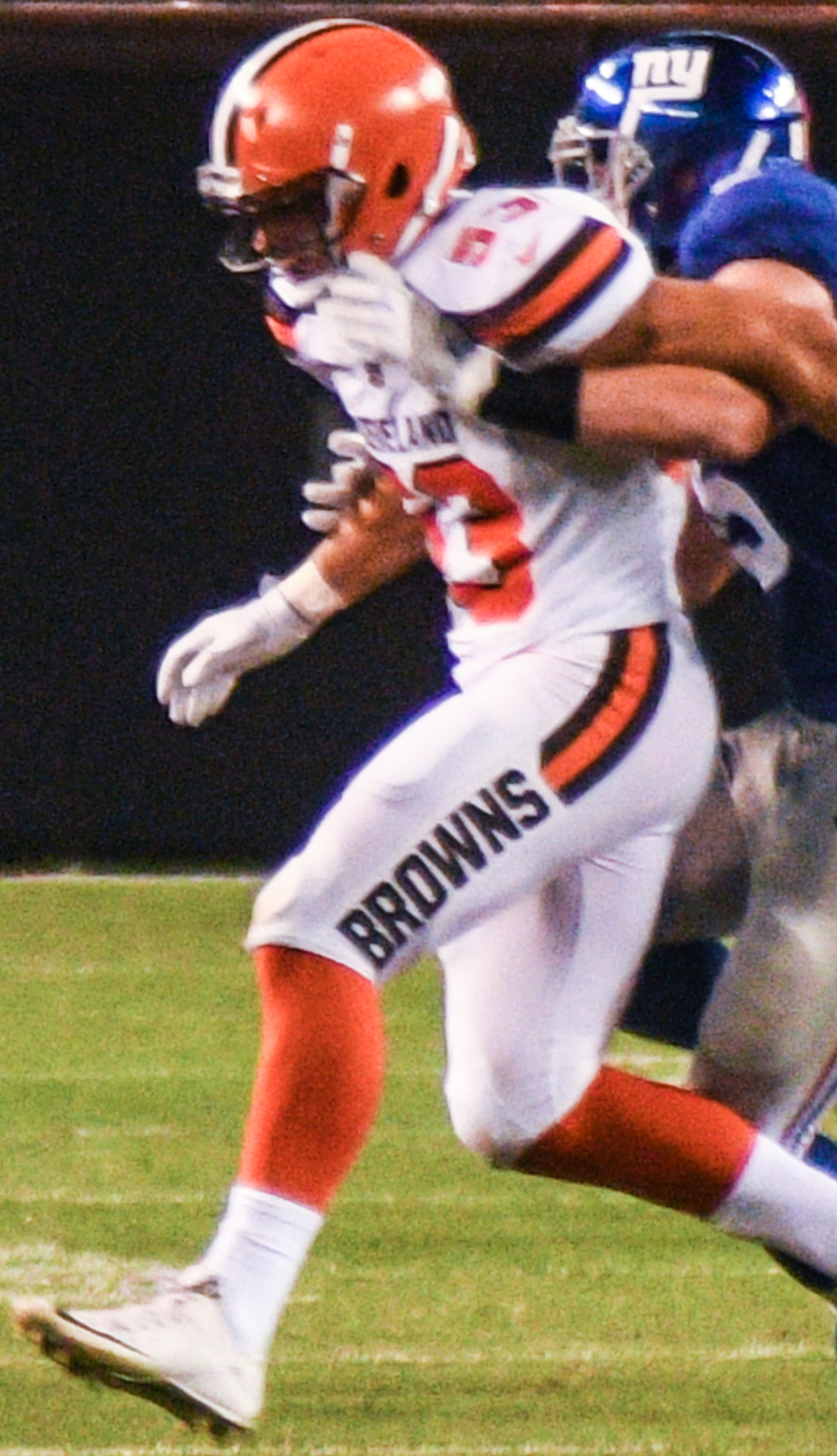 Cleveland Browns vs. New York Giants